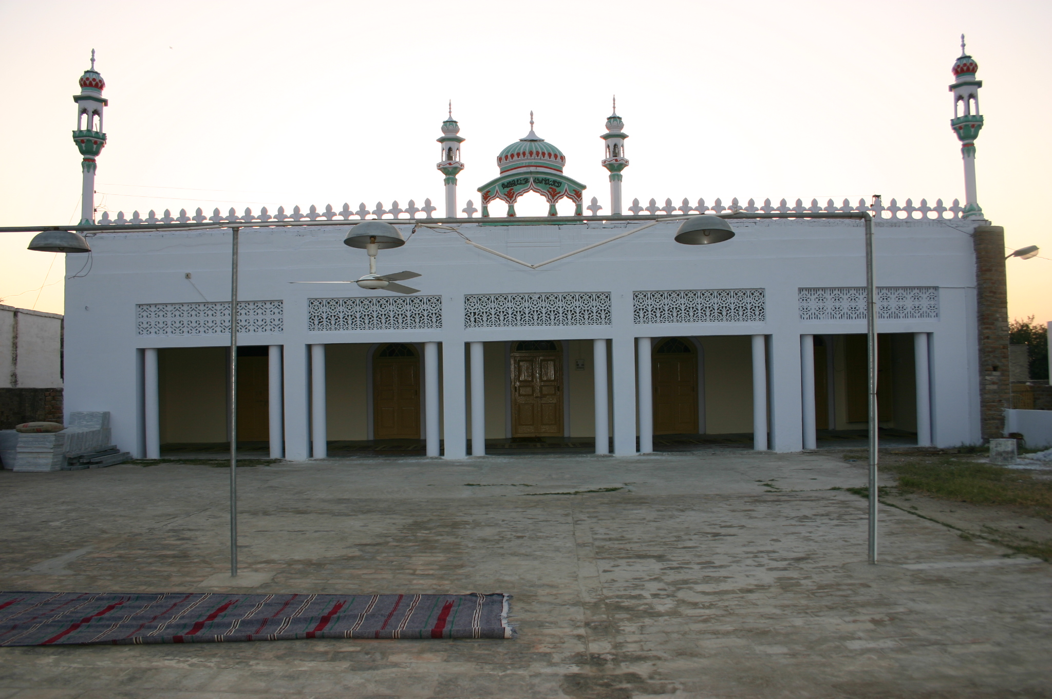 The founder of Chura Sharif Hazrat Khwaja Syed Noor Muhammad Churahi